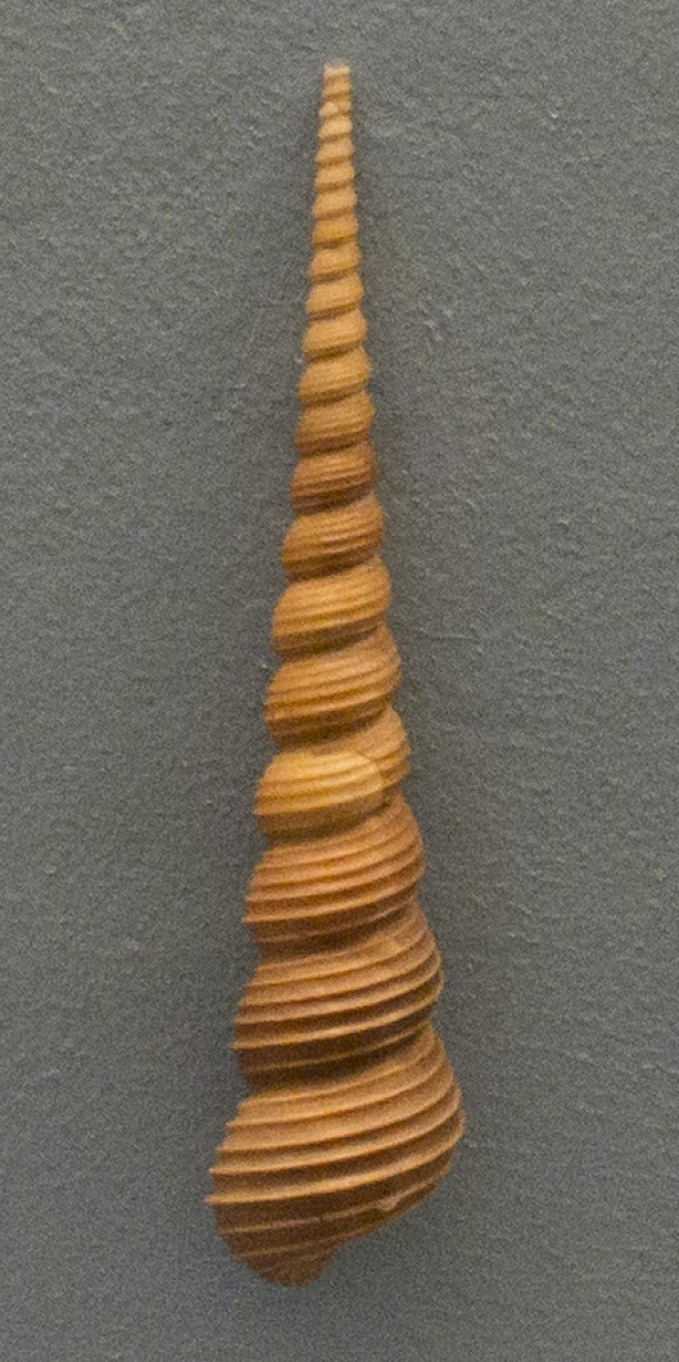 Seashell of Turritella terebra (Linnaeus, 1758)[1] from the collection of Vienna Natural History Museum, Austria, 2014 (edited photograph).